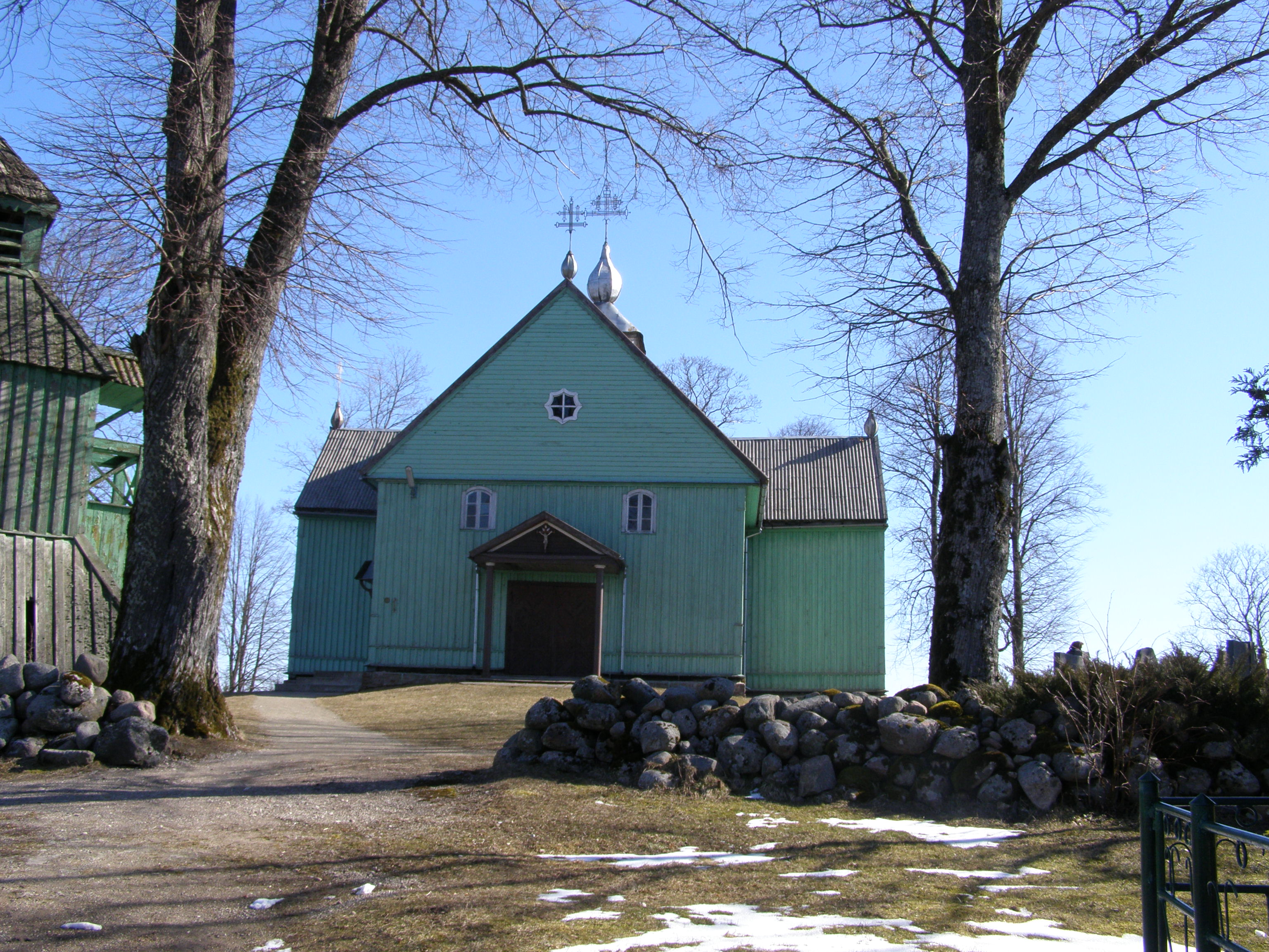 Kalnalis, Kretinga district, Lithuania